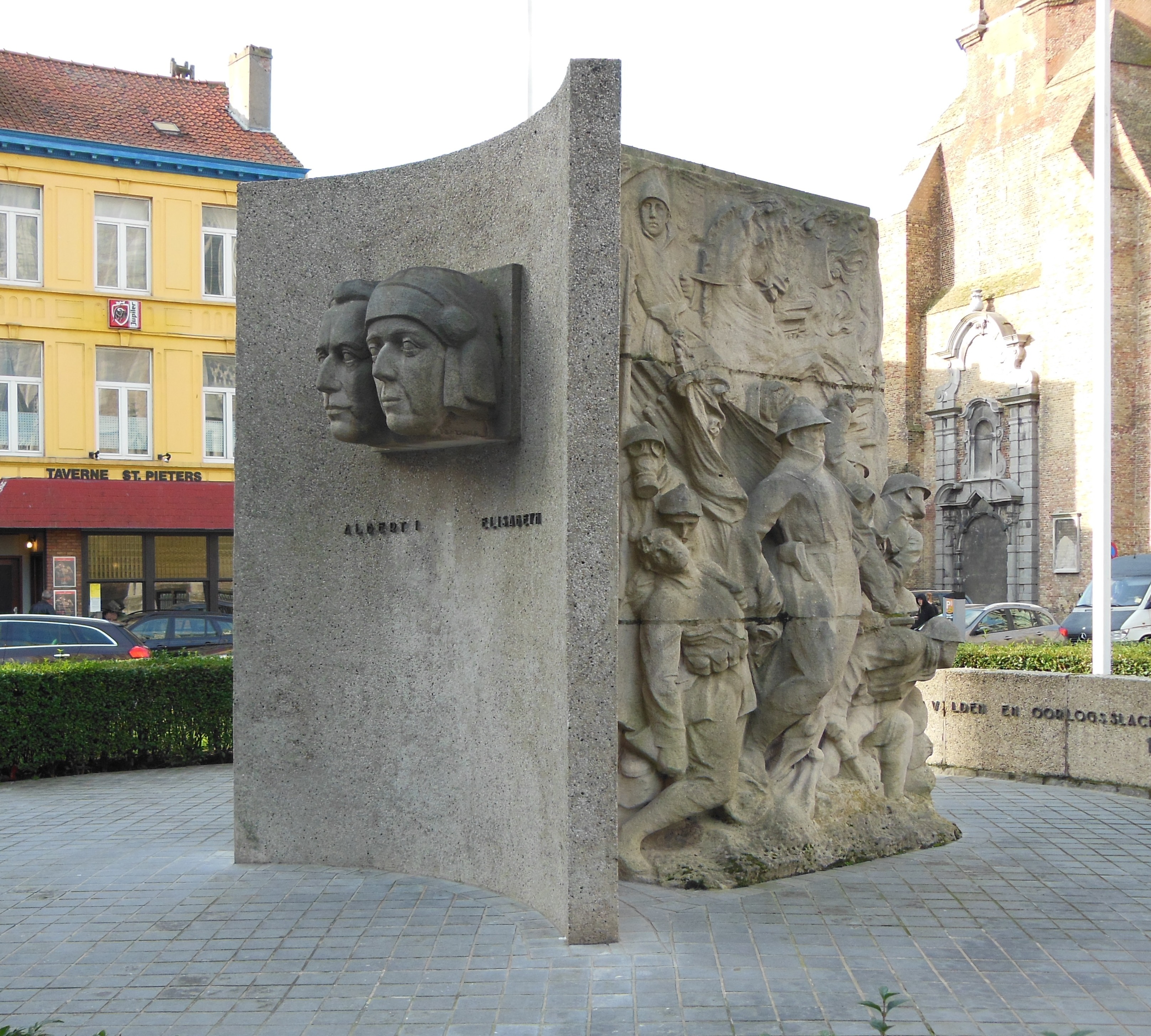 A grand monument to commemorate all the victims of World War I